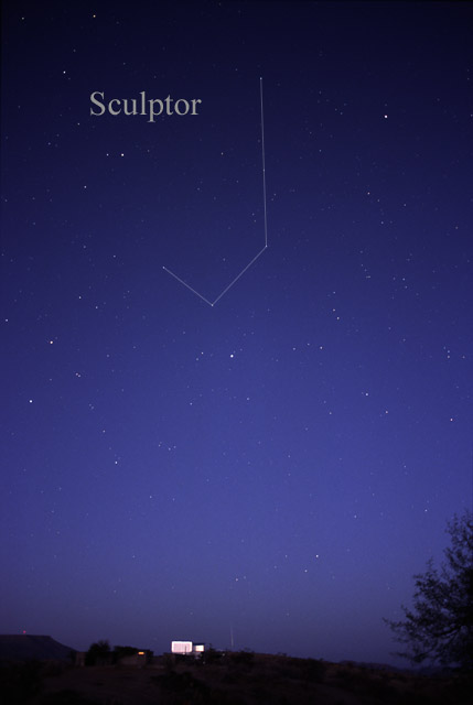 The constellation Sculptor as it appears to the naked eye